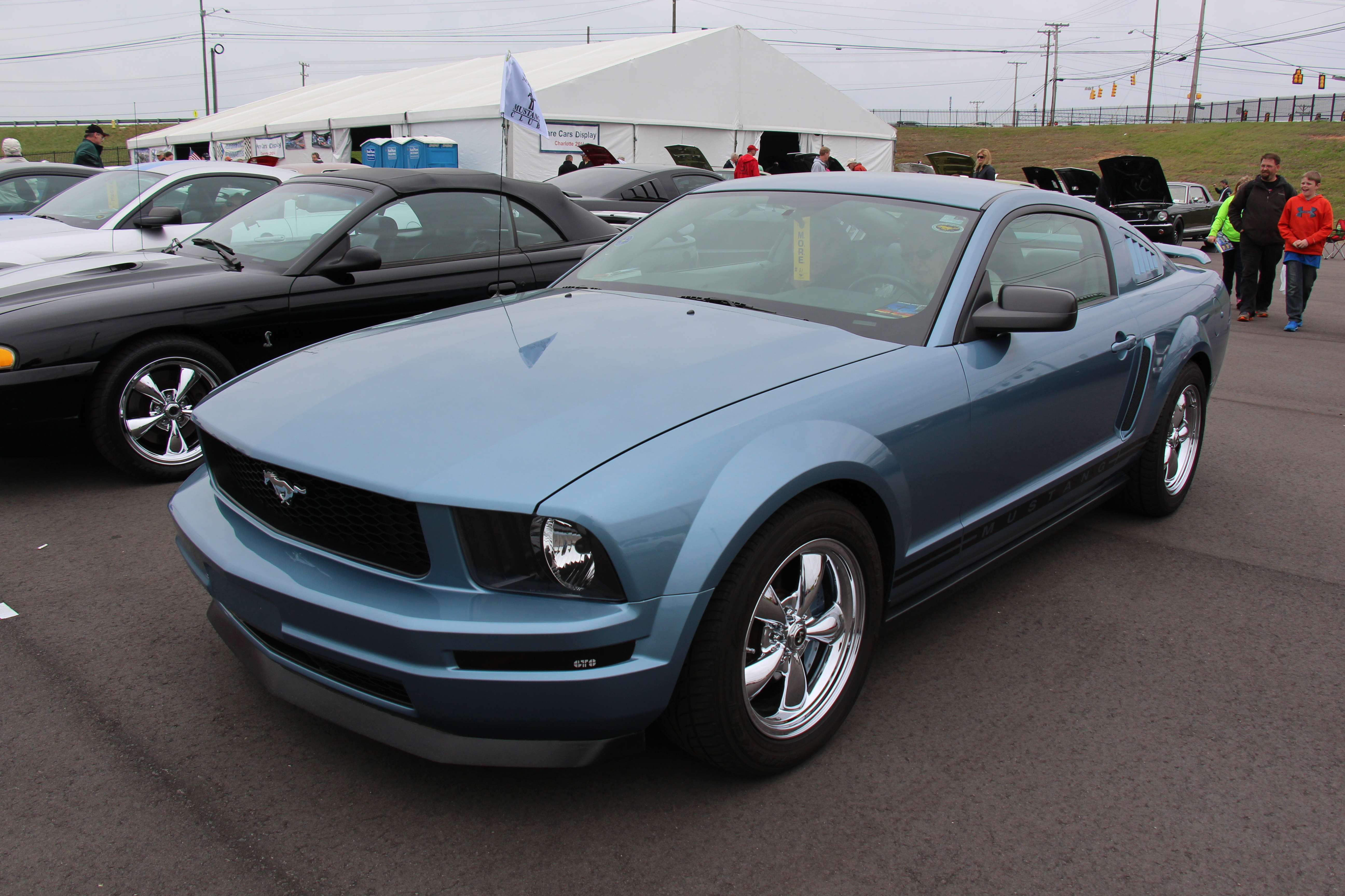 Windveil Blue. The fifth generation began with the 2005 model year, and received a facelift in 2010 and again in 2013. The styling was influenced by the 1st generation Mustangs, headlights set back from the grille like the 67, 68 and the fastback roofline like the 65, 66. It was available in Coupe or Convertible, models were; base, GT, the old California Special was back in 2007 and of course Shelby versions; GT, GT-H, GT500 and GT500KR Engines; 4.0 L Cologne V6, 4.6 L V8 and 5.4 L Supercharged V8. Photographed at the 50th Anniversary of the Mustang celebrations at the Charlotte Motor Speedway, April 2014